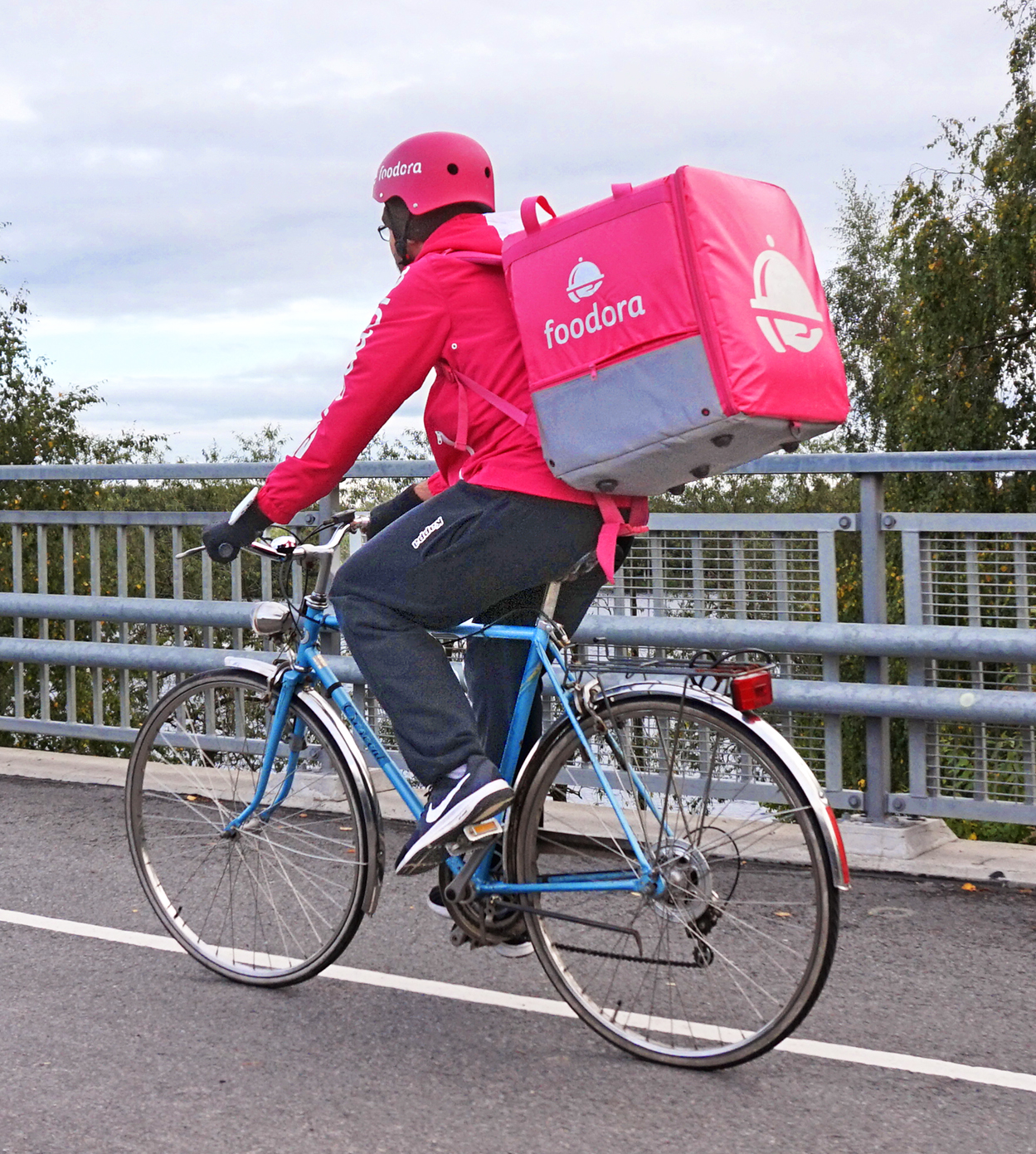 A bicycle messenger of Foodora in Tampere.This photograph was taken with a Sony ILCE-5000